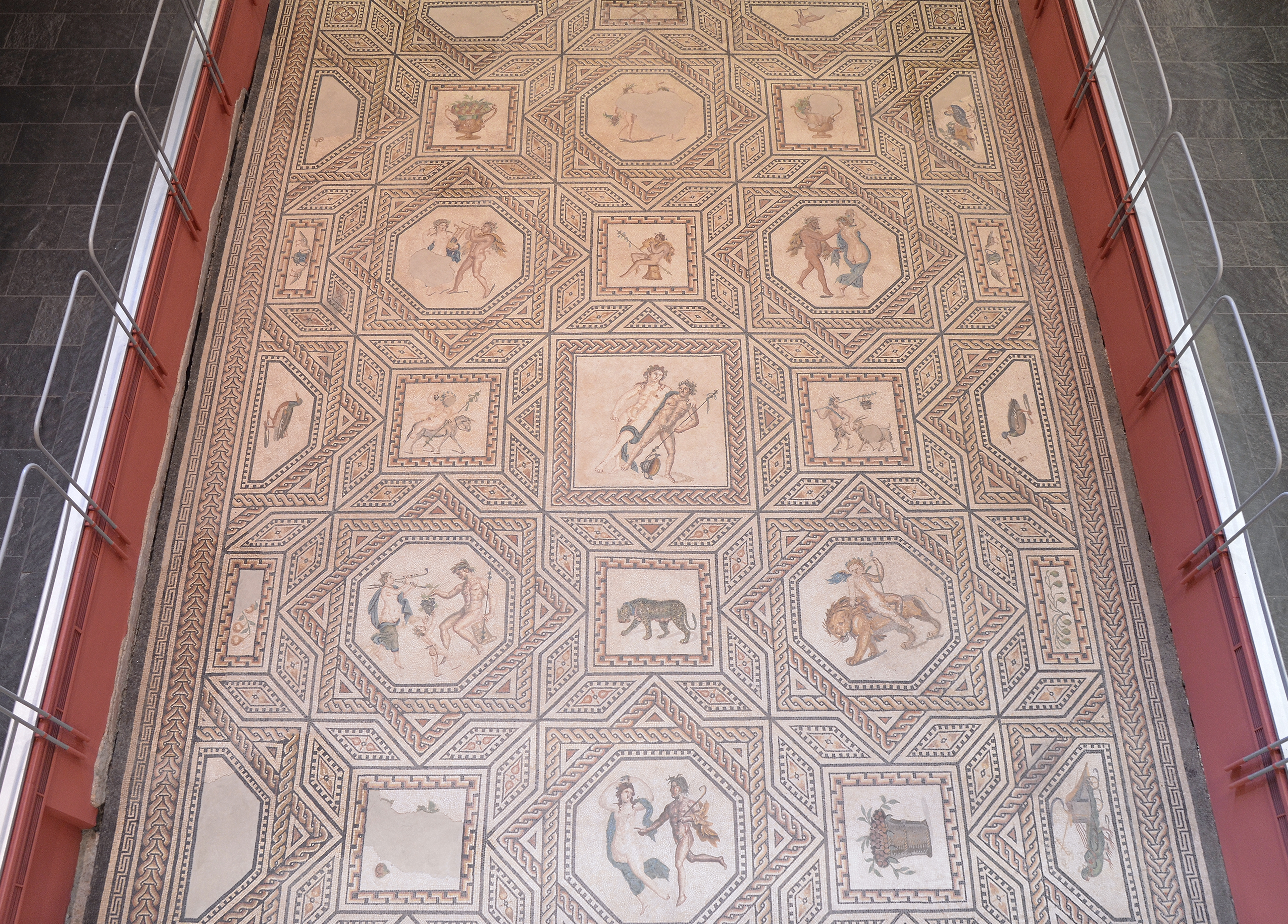 The Römisch-Germanisches Museum was constructed on the site of a 3rd-century villa. The mosaic was excavated on this site in 1941 and the museum was built around it. The finest work of its kind in northern Europe, the mosaic adorned the dining room of a Roman villa. It is made of over a million pieces of limestone, ceramics and glass and covers an area of about 70 square meters. It depicts a drunken Dionysus, god of wine, surrounded by Cupid, Pan, dancers, satrys and vignettes of the delights of the table. Its incredible state of preservation is due to the protective covering it received from the burned-out remains of the villa falling on it when sacked by a Germanic tribe in the 4th century.